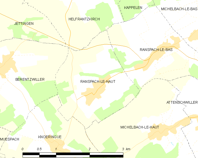 Map of French municipality